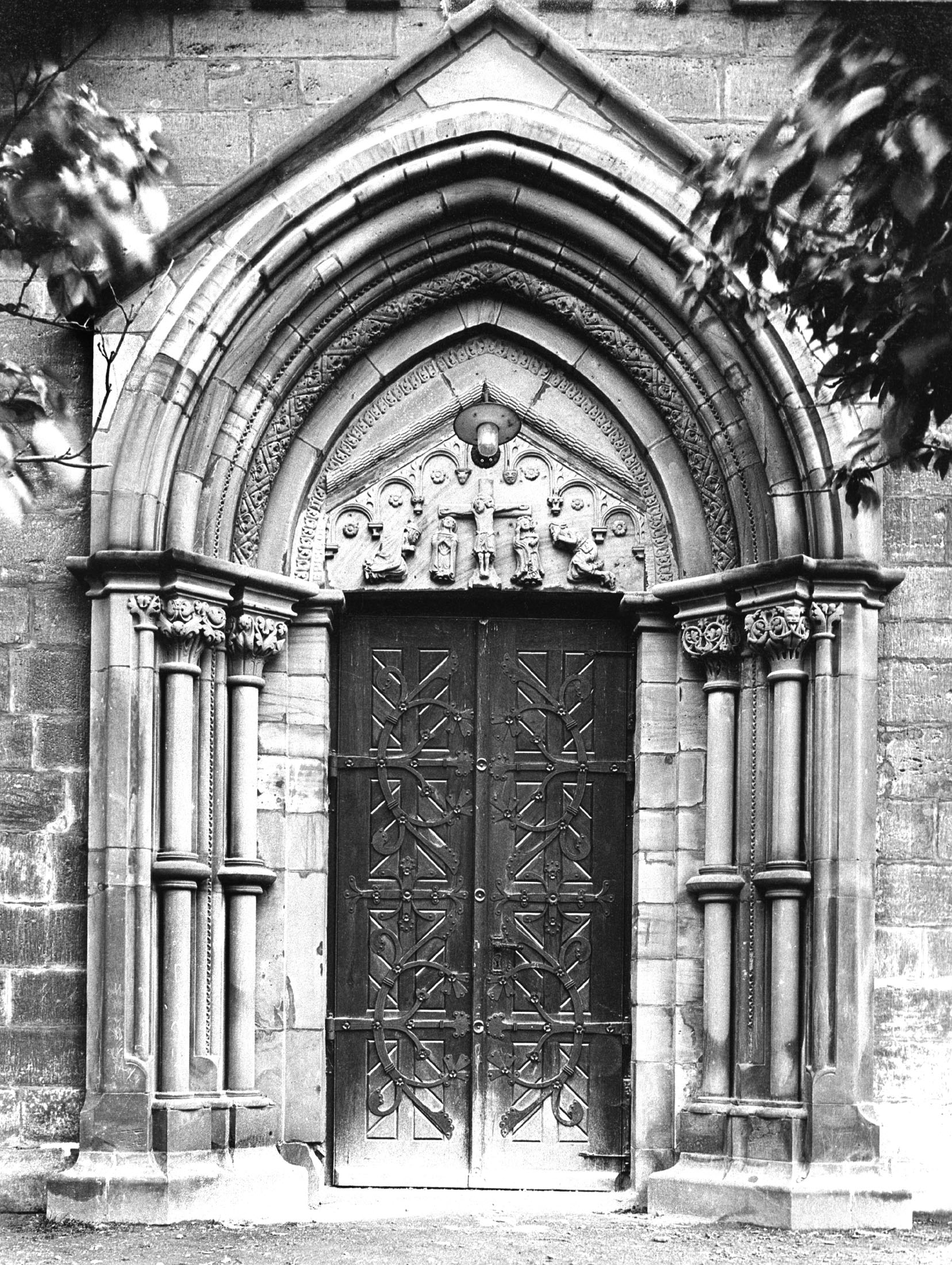 Church of Our Lady, Arnstadt (Germany), c. 1900